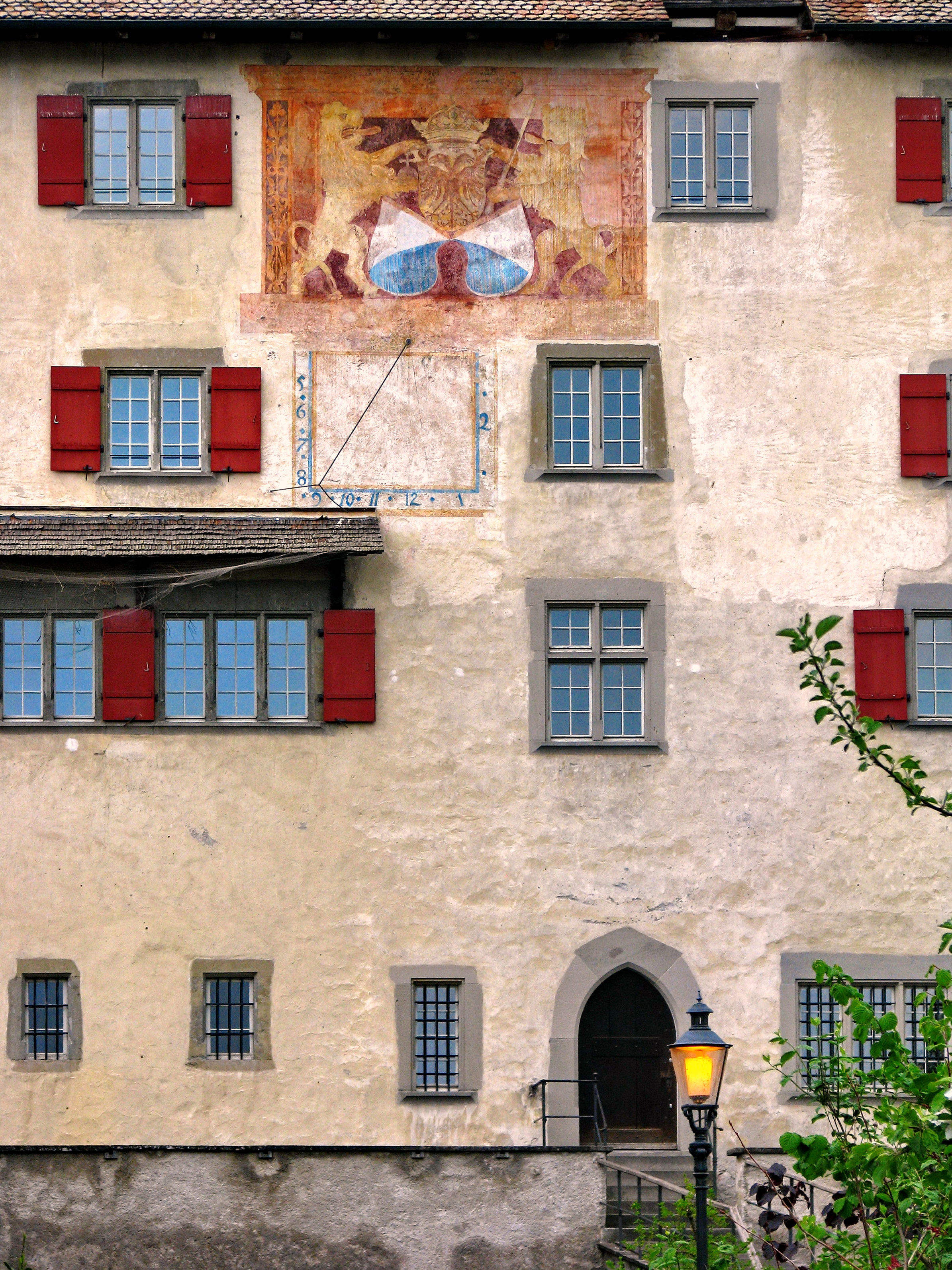 Greifensee (ZH) : Greifensee castle